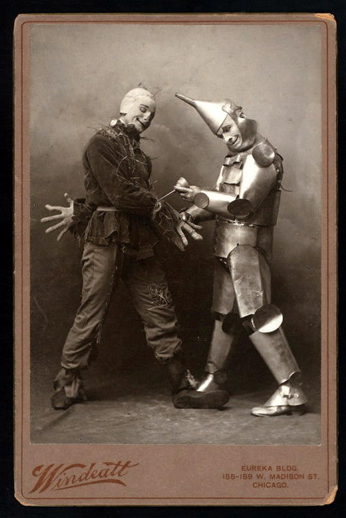 The Wizard of Oz 1902 musical extravaganza with Fred Stone as the Scarecrow and David Montgomery as the Tin Woodman